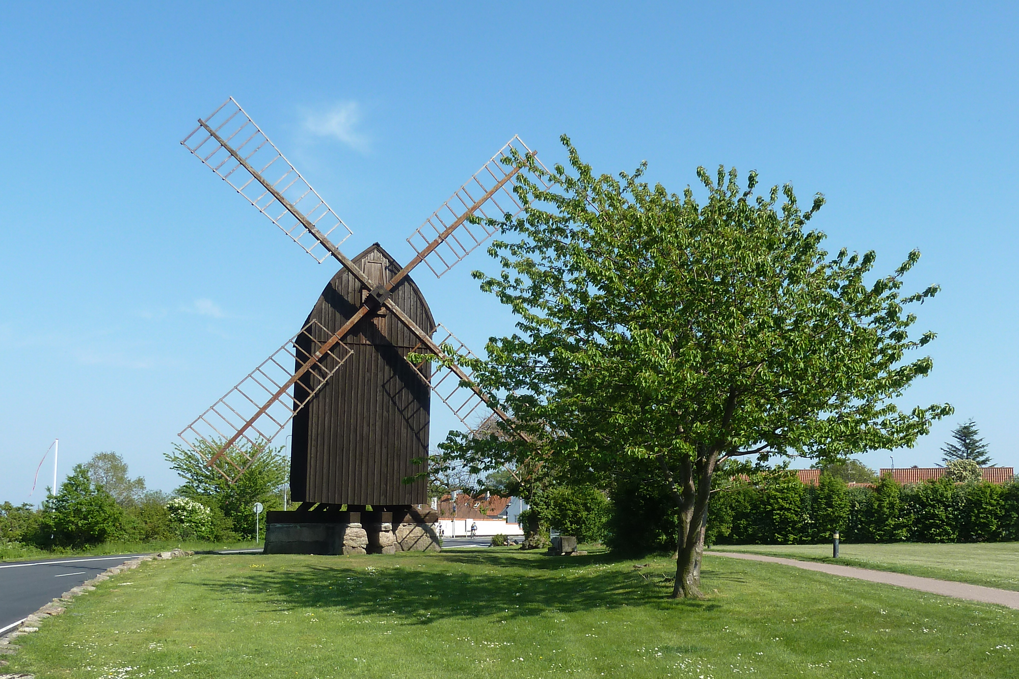 Post mill, Bornholm, Denmark